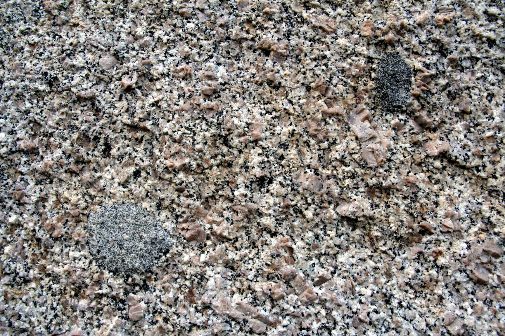 Granite of Aber-Ildut at Plouarzel in Brittany in France. View is about 10 cm across.